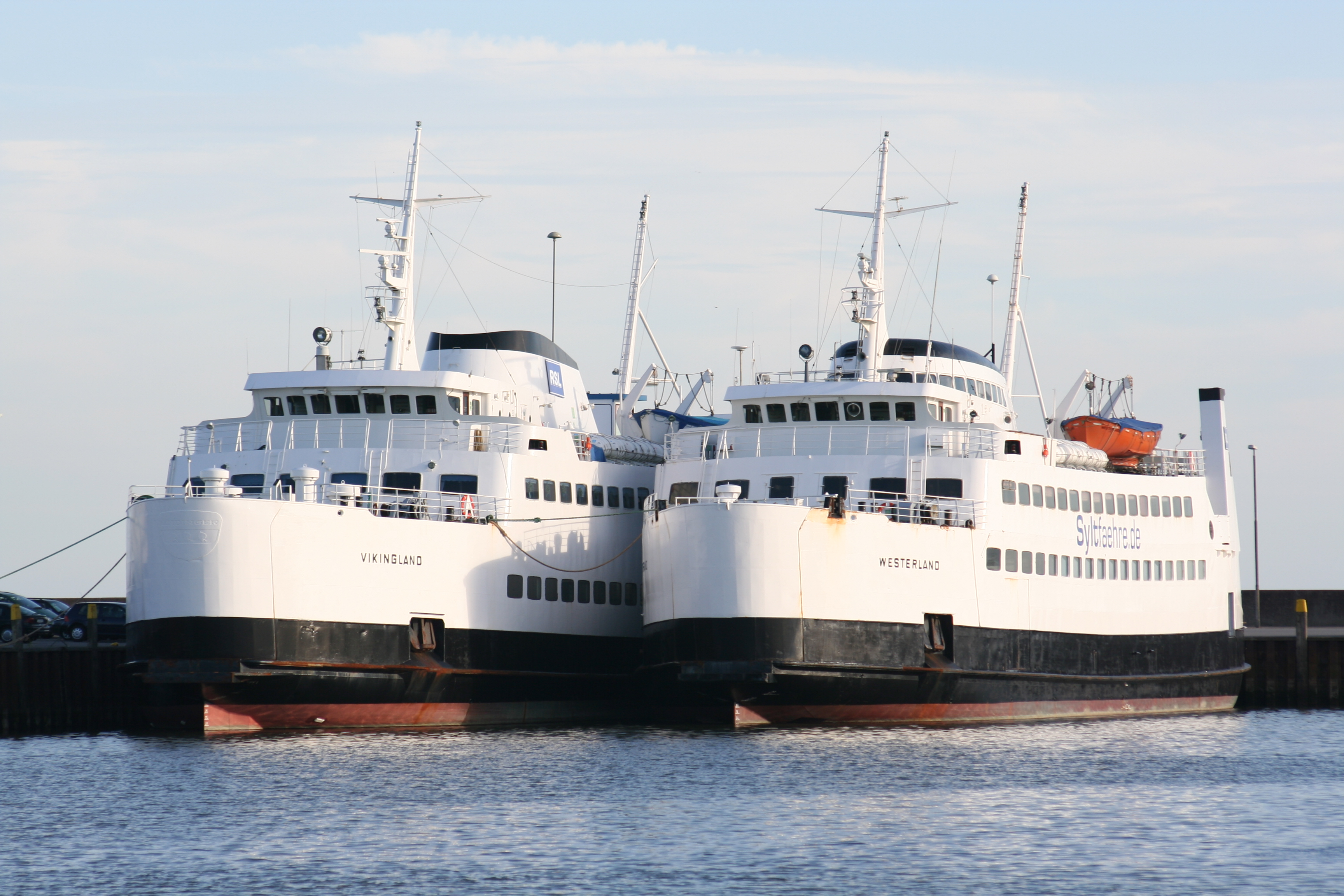 The former ships "Westerland" and "Vikingland" of the Rømø-Sylt ferries in the harbour of Havneby. The ships were replaced by a new ferry in June 2005.